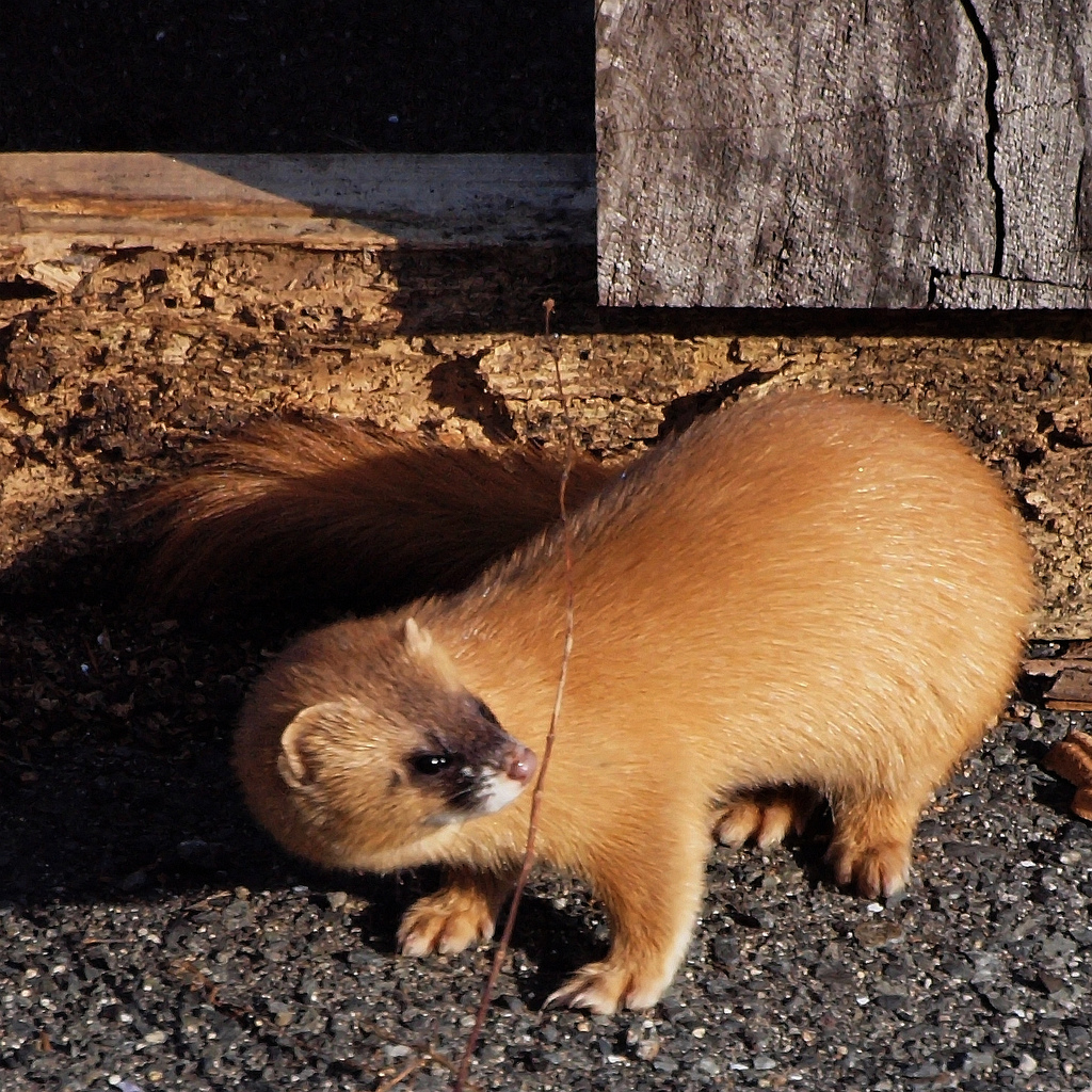 Kolonok in Japan